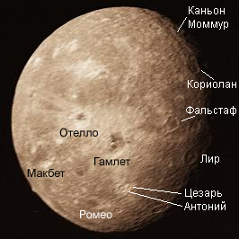 Oberon (a moon of Uranus). Voyager-2 image. All 10 surface features which have names (2016) are signed (according to maps by Tayfun Oner and list on IAU site)